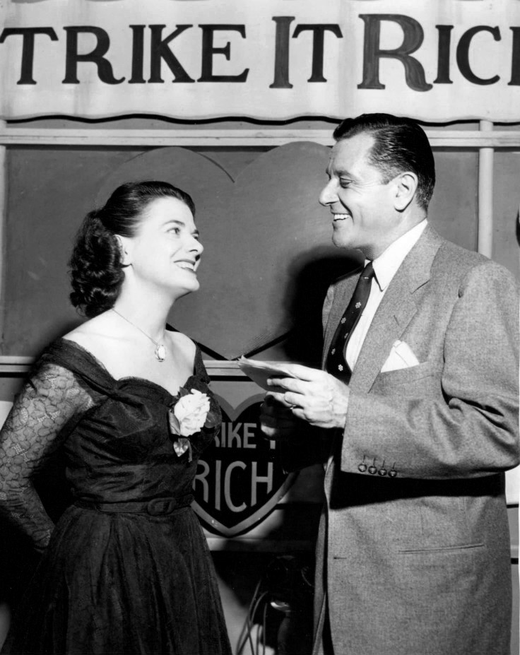 Publicity photo from the television program Strike It Rich. Pictured are Jane Wilson standing in for someone in the "Helping Hand" segment, and host Warren Hull.